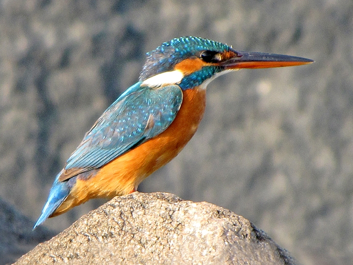 I finally had an opportunity to be very close with this lil fella! I had a cushy front row seat for my favorite sunday morning 'Sanderling & Kentish Plover' show and this guy swooped close to within 10 feet of me. Of course, I only had one moment to turn and click one image, before the King saw me!